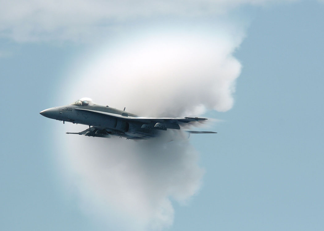 An F/A-18 photographed in high-speed flight, with water condensation highlighting the low pressure zone associated with shockwaves.